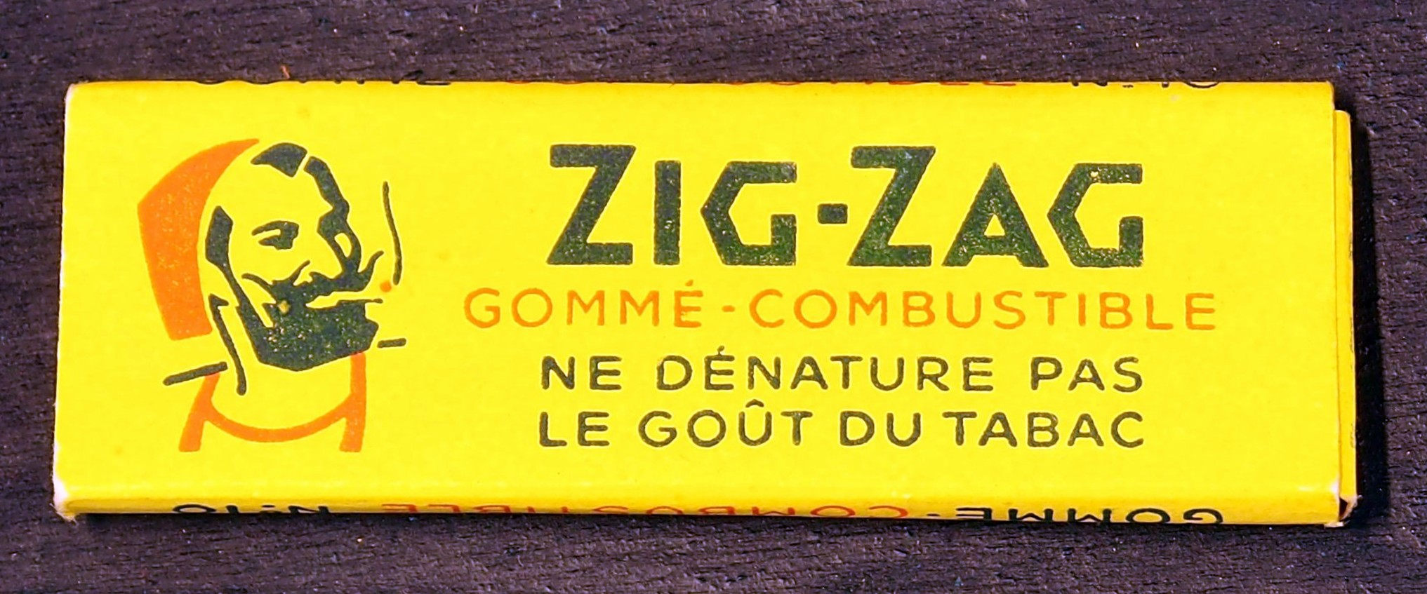 Old product that is not sold/produced anymore!